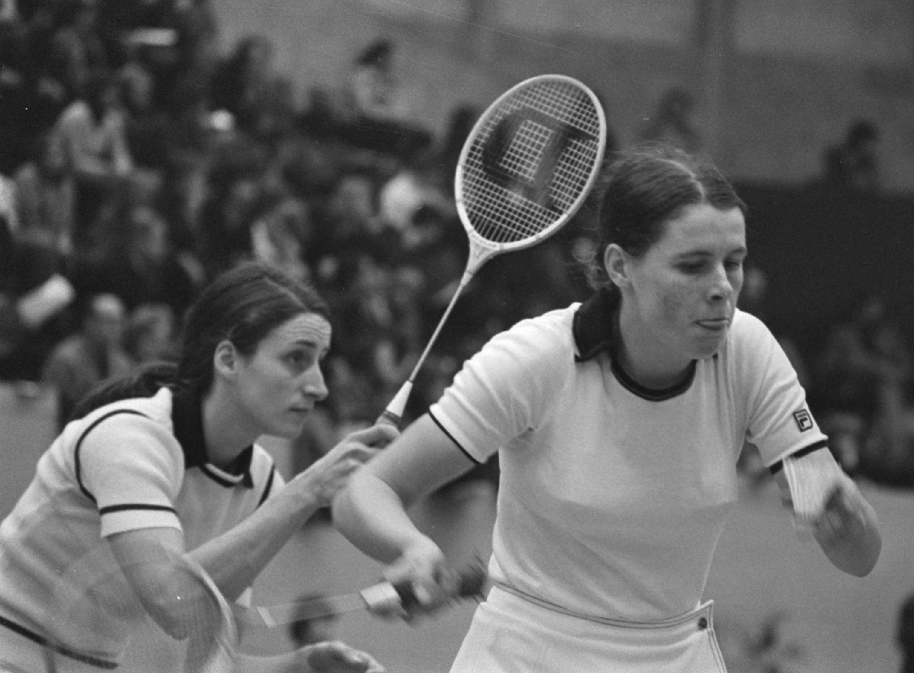 Marjan Ridder (left) and Joke van Beusekom